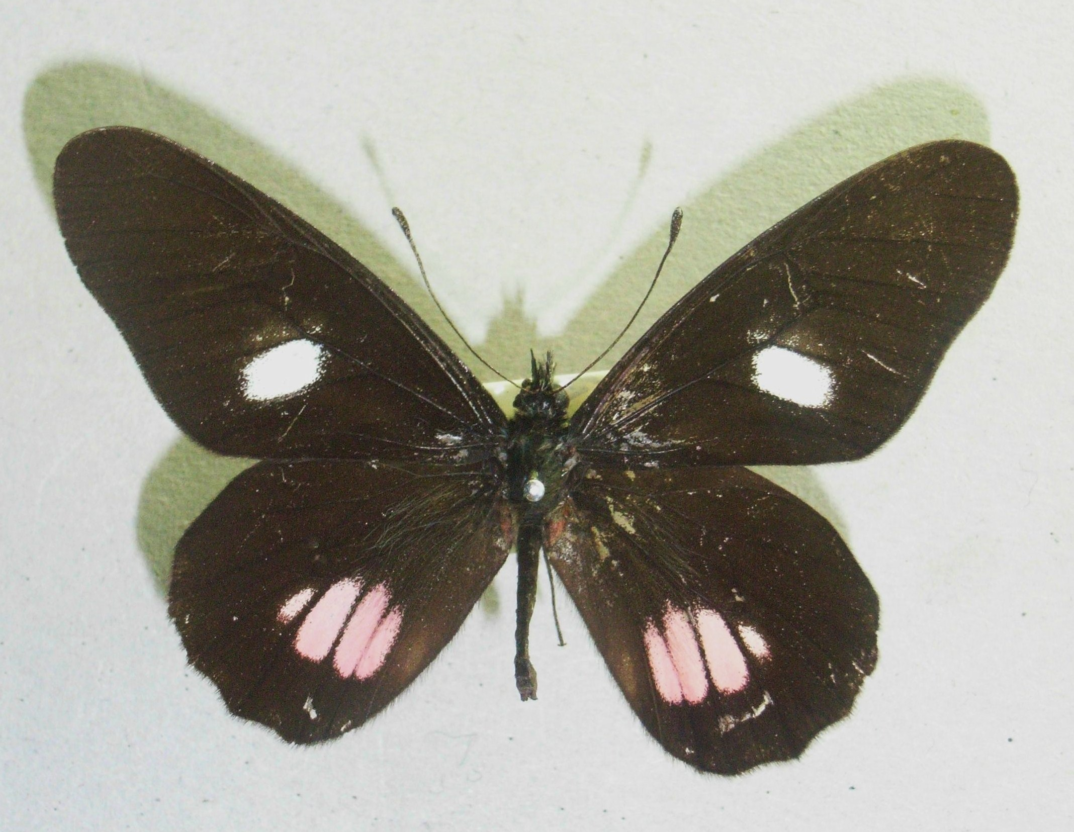 Archonias tergas:Pierinae:Pieridae